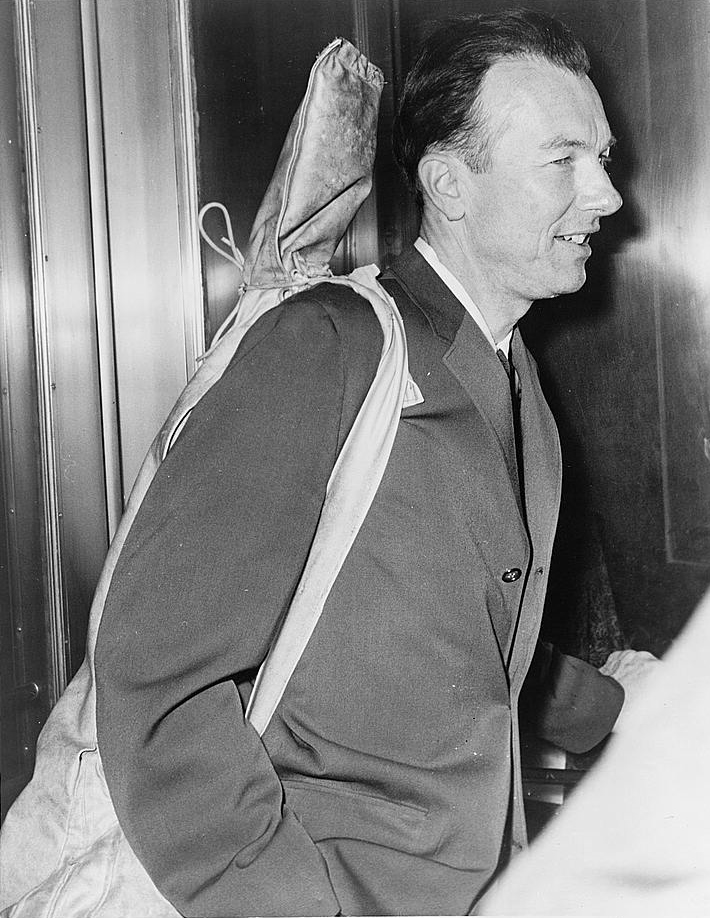 Pete Seeger, half-length portrait, turned right with guitar case slung over his shoulder.